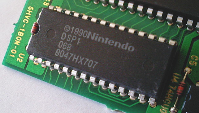 Nintendo DSP-1 digital signal processor is within Pilotwings game cartridge.